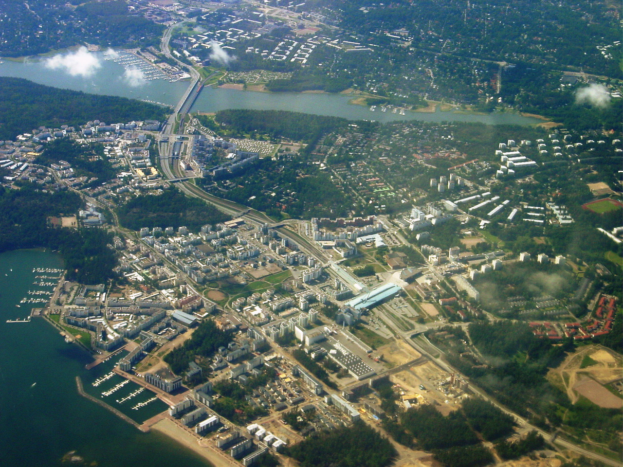 Vuosaari, Helsinki, Finland. The picture has been taken from an aeroplane. A version with the colors adjusted.